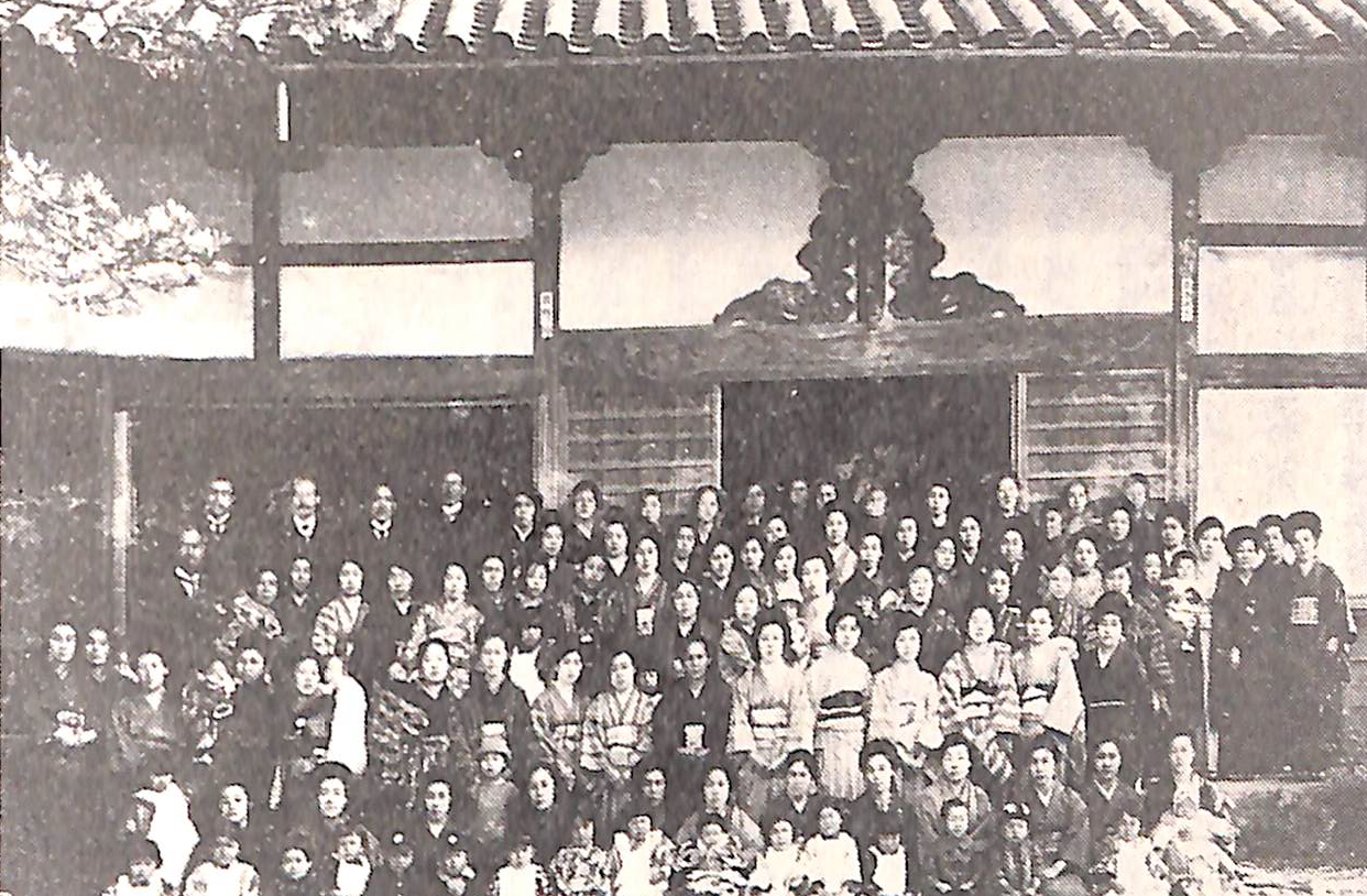 This is Osato school (Now Toba elementary school) in Toba, Mie, Japan.